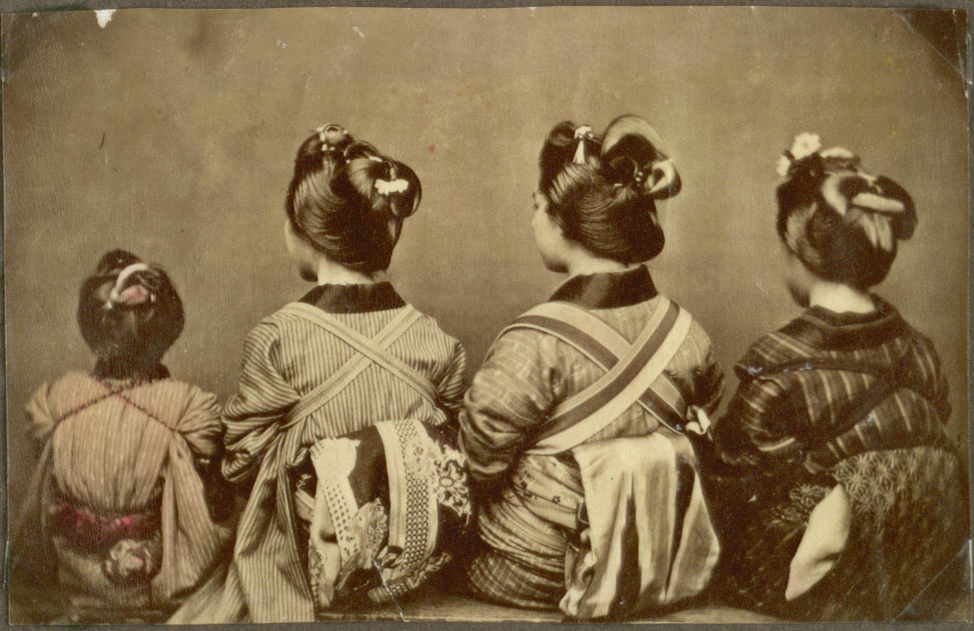 Photograph donated by Doctor J. Johnsson. No. es_b_00654